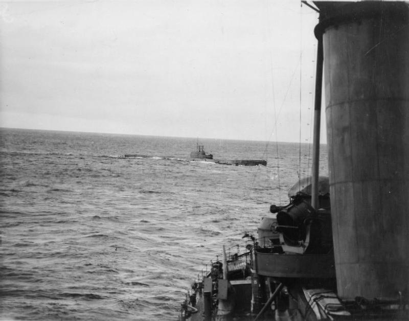 The Royal Navy during the Second World War The submarine HMS CLYDE acting as an escort during the refuelling between RFA DINGLEDALE and HMS HERMIONE